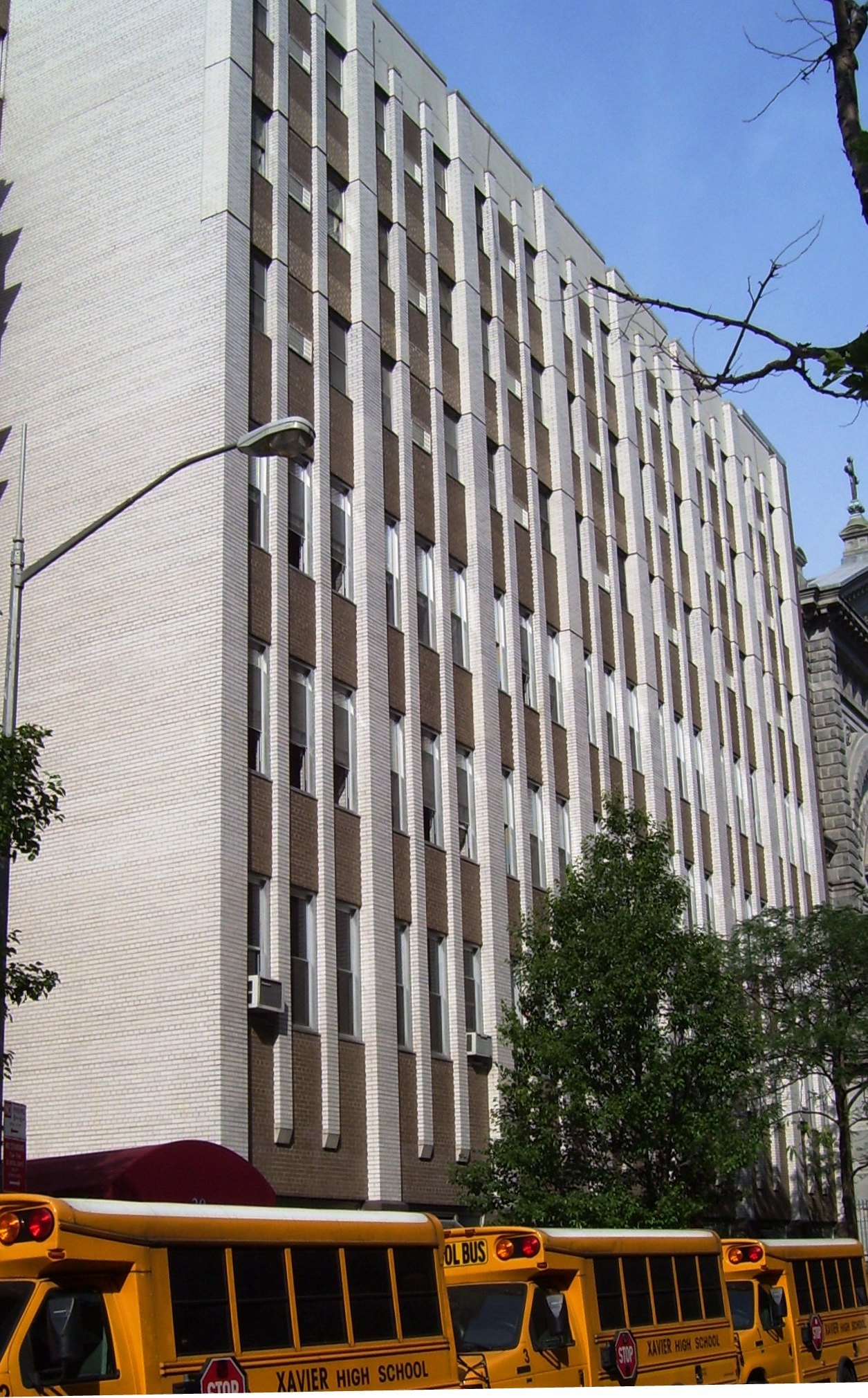 Xavier High School (originally St. Francis Xavier College) at 34 West 16th Street between Fifth and Sixth Avenue in the Flatiron District neighborhood of Manhattan, New York City.